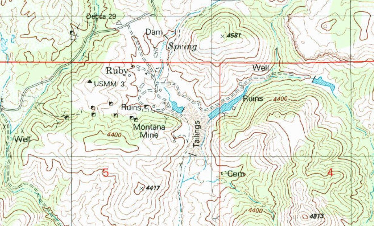 Section of the USGS Ruby, AZ quadrangle showing the area